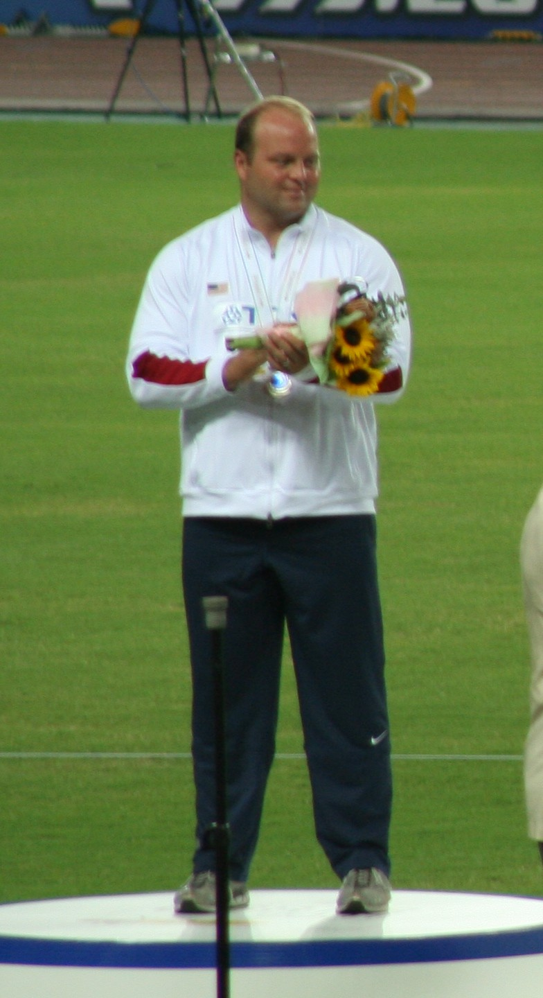 World Athletics Championships 2007 in Osaka - Adam Nelson at the Men's Shot Put Victory Ceremony